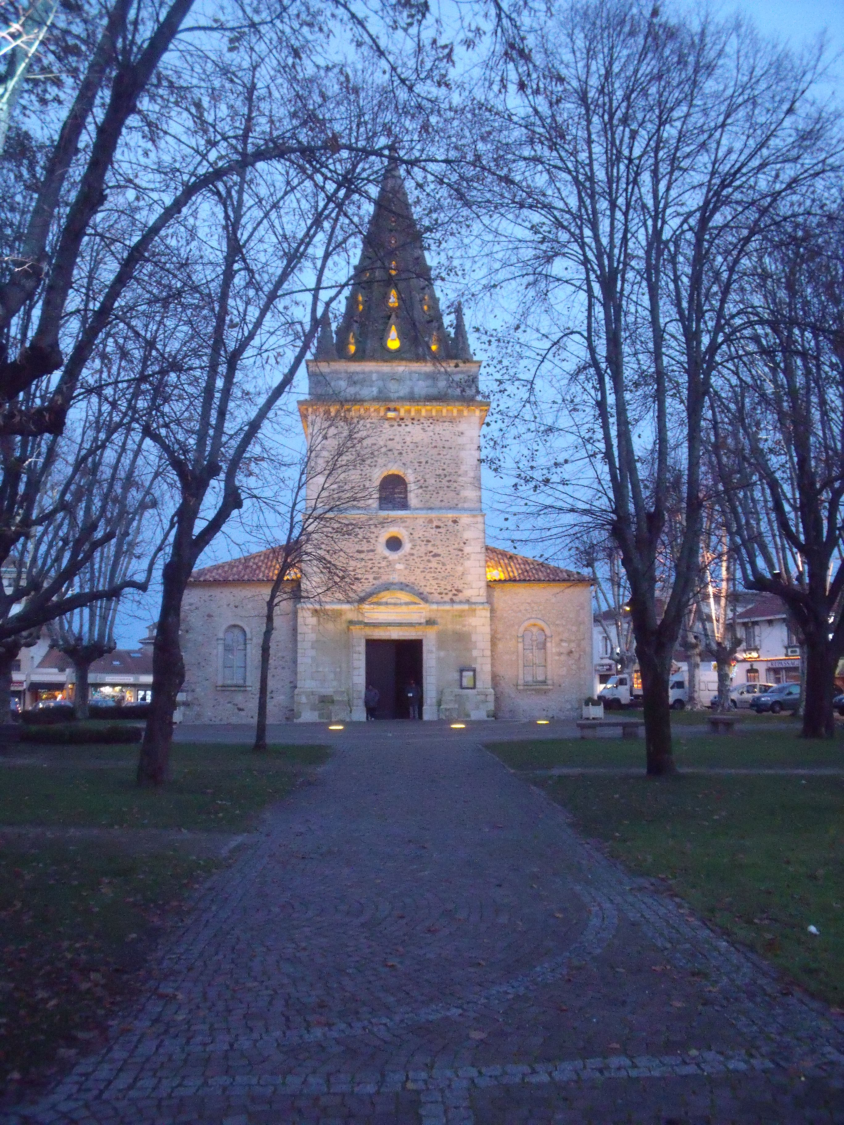 La Teste-de-Buch church by night.